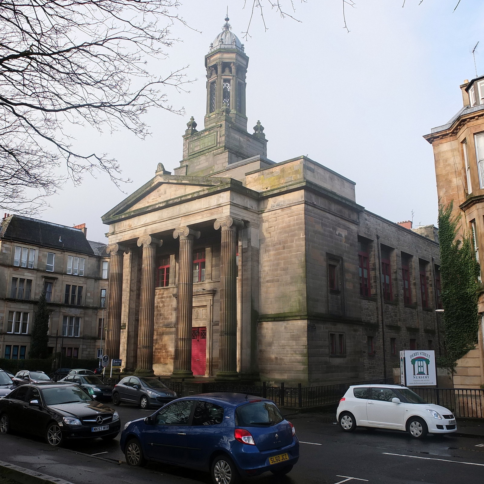 49 Derby Street, 22, 30 Bentinck Street